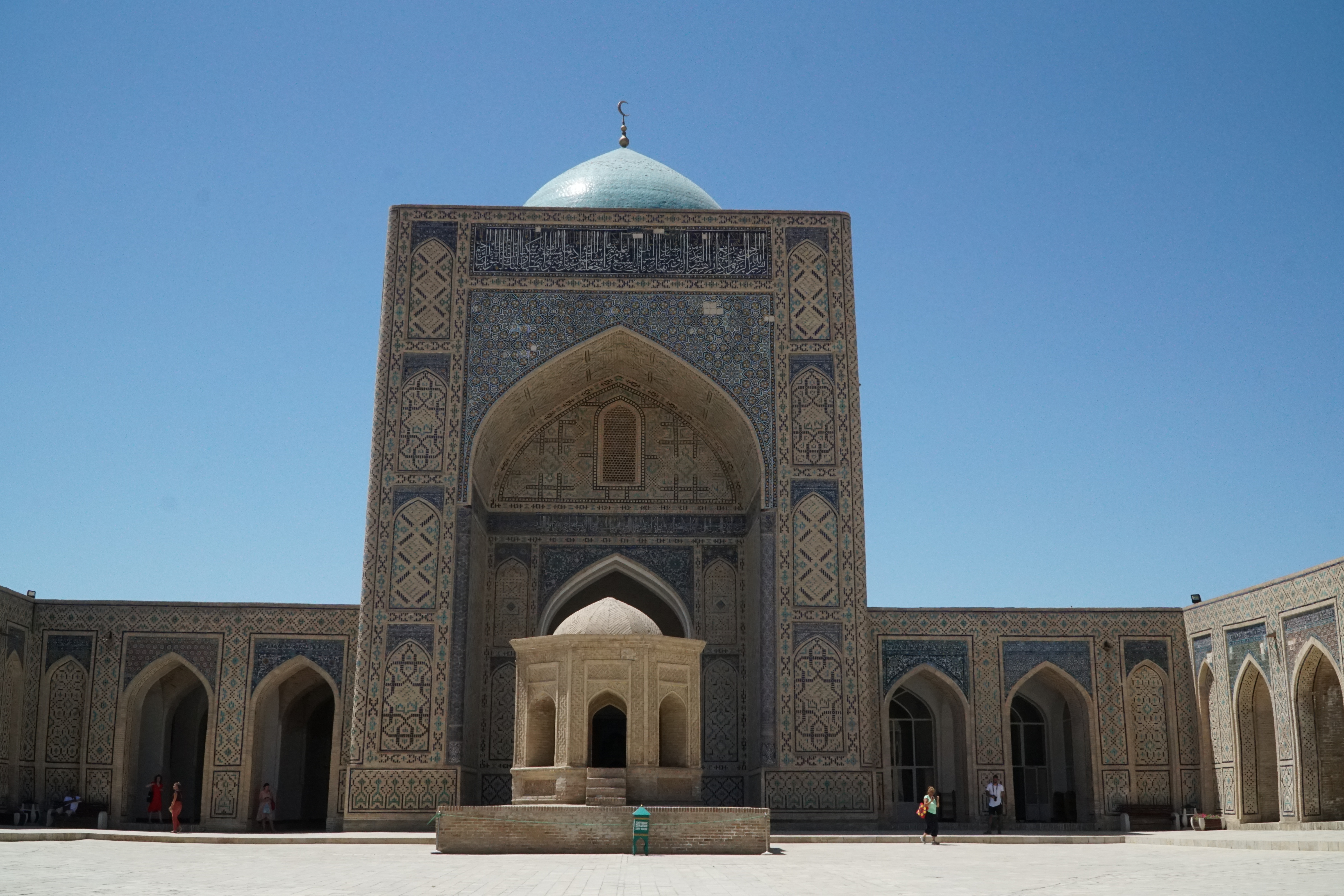 Kalyan Mosque courtyard